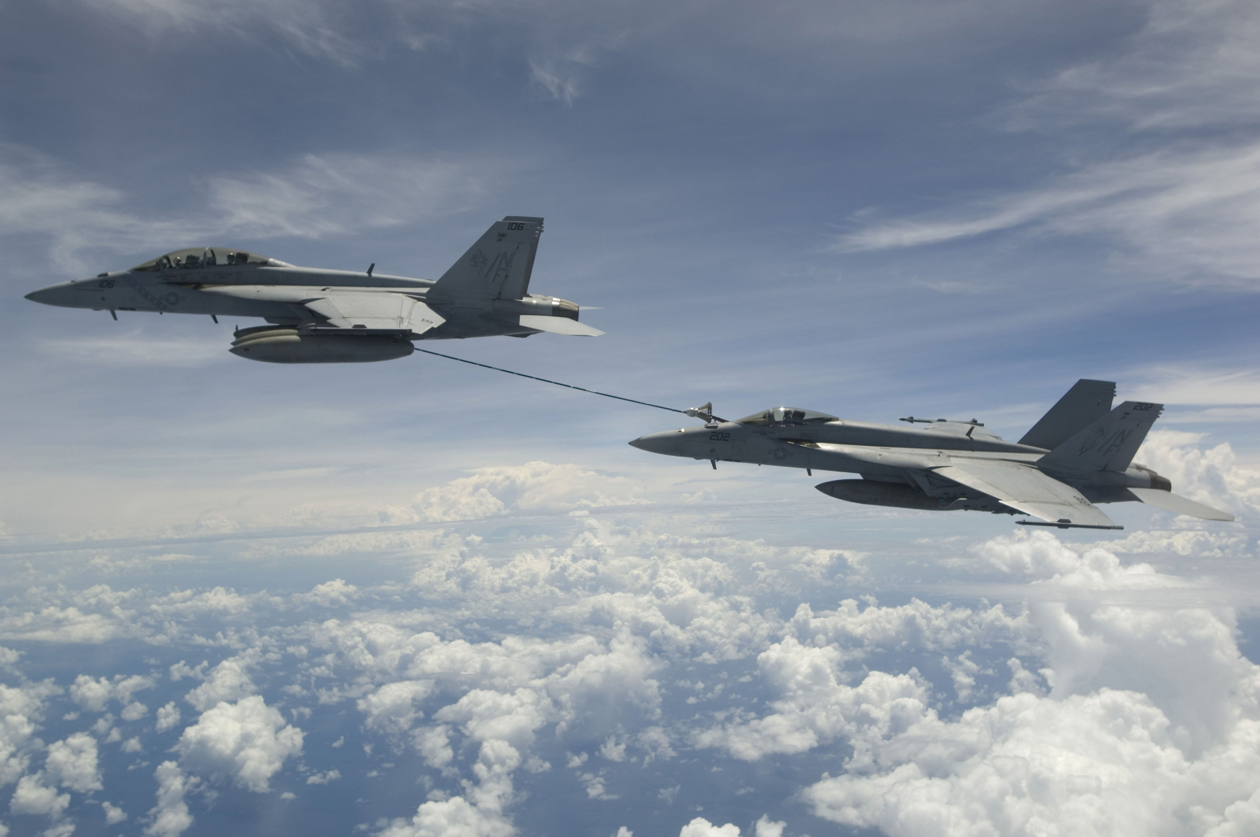 An F/A-18F Super Hornet aircraft assigned to Strike Fighter Squadron One Zero Two fuels an F/A-18E Super Hornet aircraft from Strike Fighter Squadron Two Seven during exercise Malabar 07-2 while over the Bay of Bengal Sept. 7, 2007. More than 20,000 personnel from five different countries are participating in the multinational exercise that includes naval forces from India, Australia, Japan, Singapore and the United States.